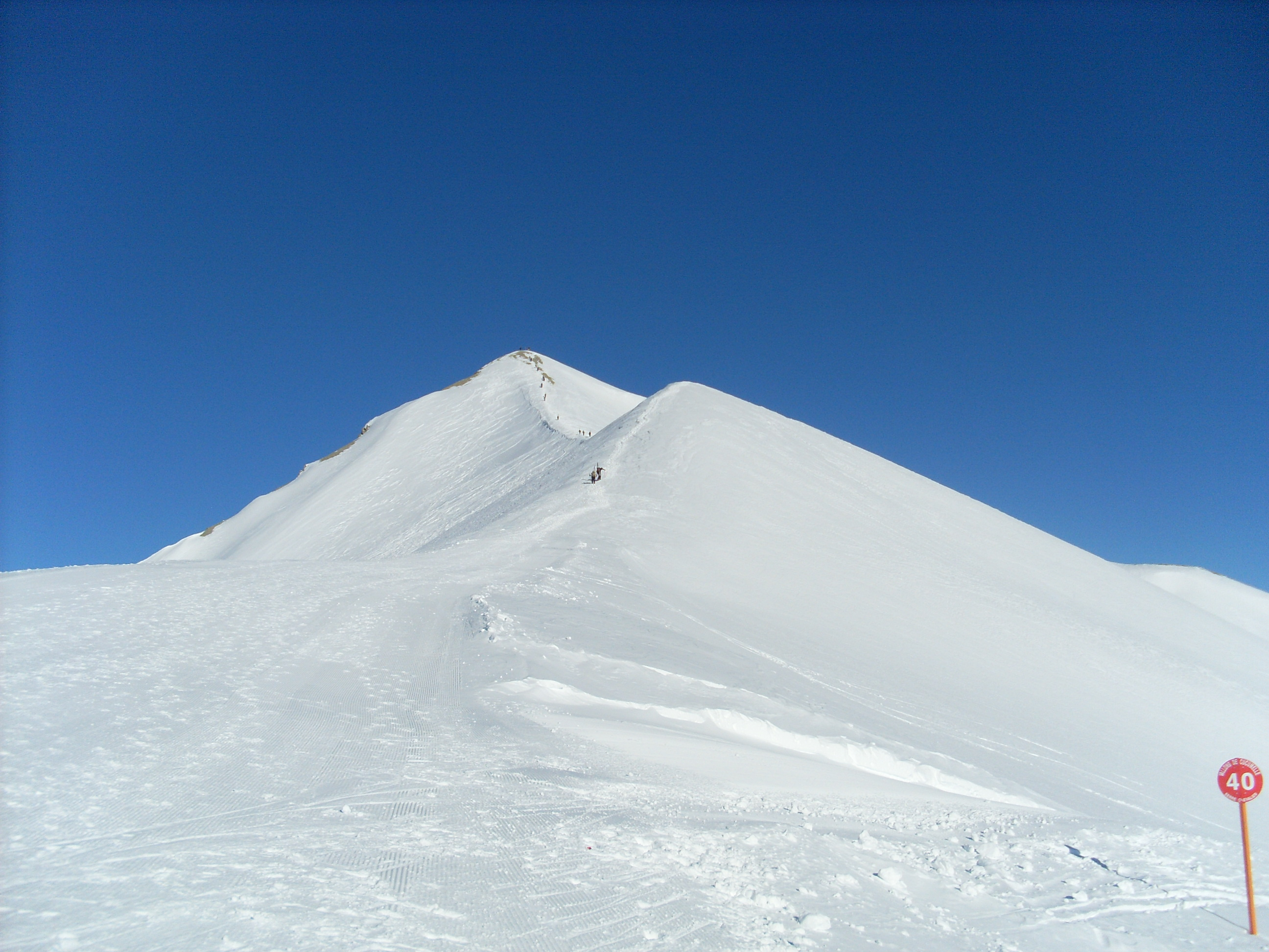 La Cucumelle, a mountain in Serre Chevalier known for off-pist skiing.